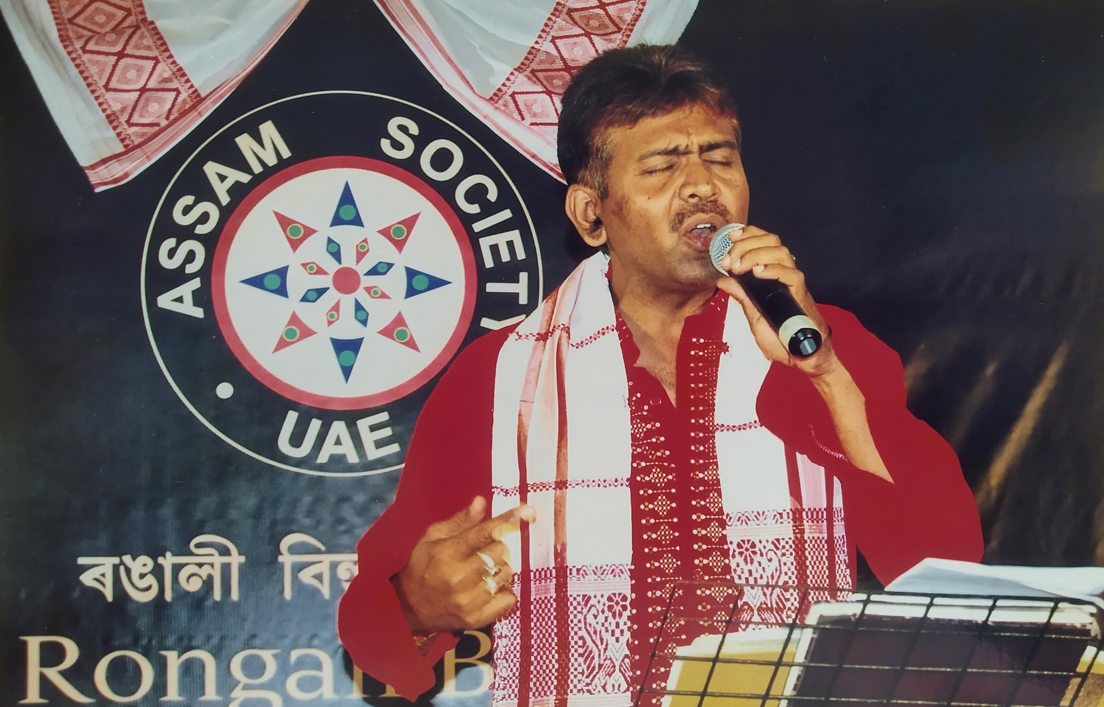 Performance at Ronagli Bihu organised by Assam Society, UAE